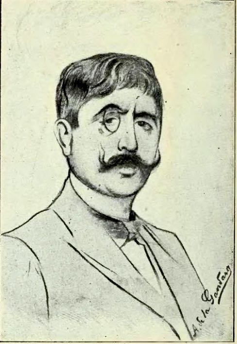 Greek symbolist poet Jean Moréas (1856-1910). Born Ioannis Papadiamantopoulos, he wrote in French.